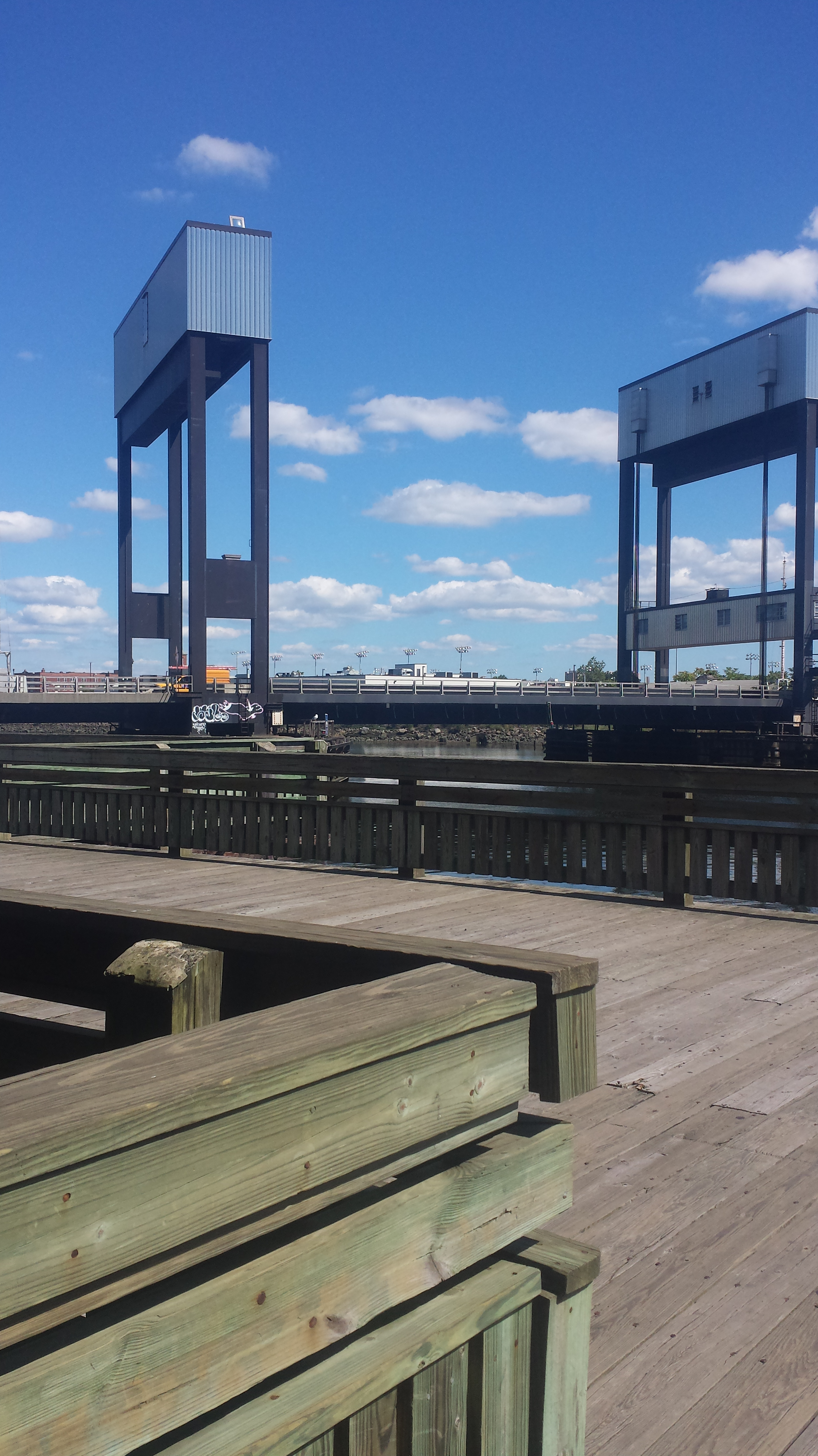 BERKSHIRE NO. 7, Bridgeport Harbor Downtown